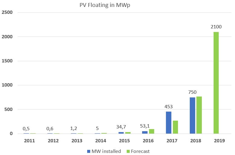 FPV installed capacity worldwide - MWp